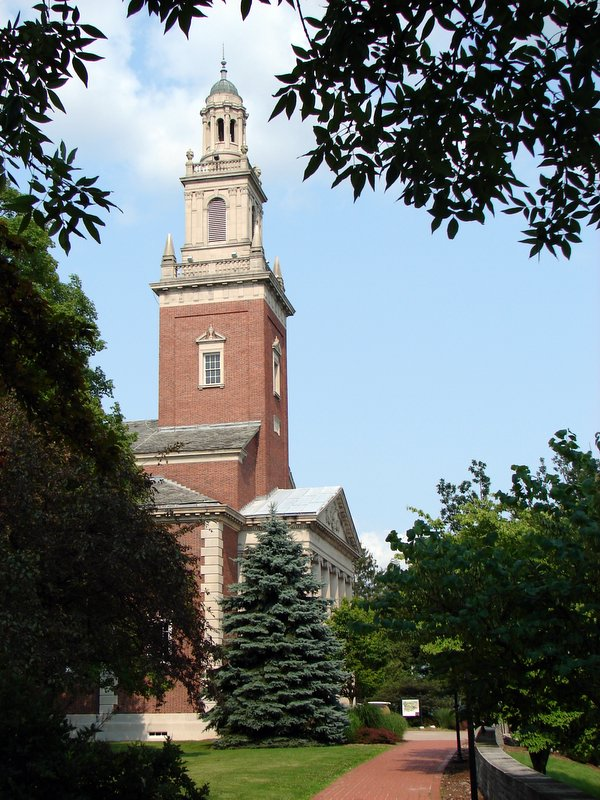 Swasey Chapel of Denison University, in Granville, Ohio, United States.